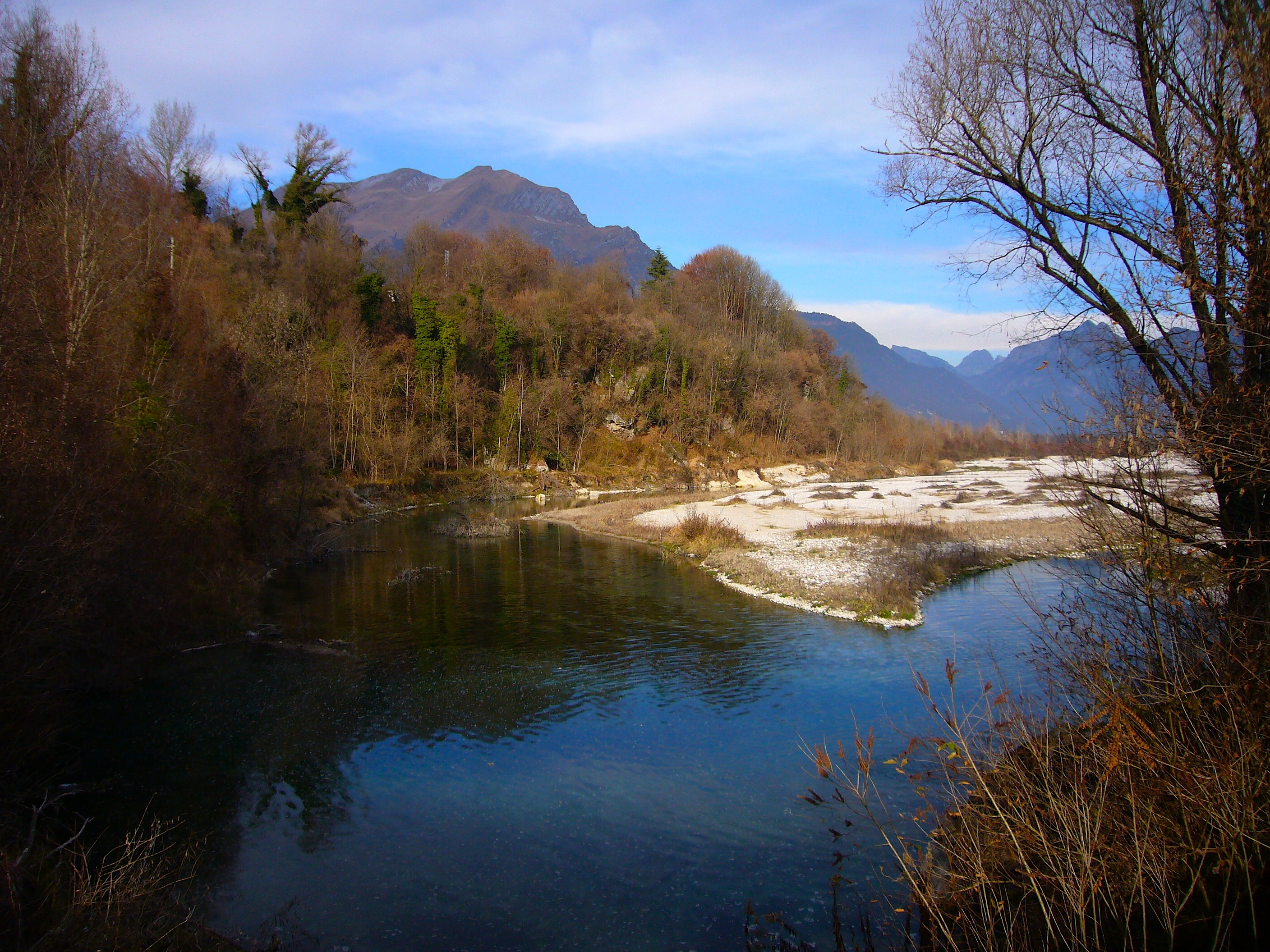 Fontane di Nogarè: Right-hand bank of the Piave River by Nogarè.